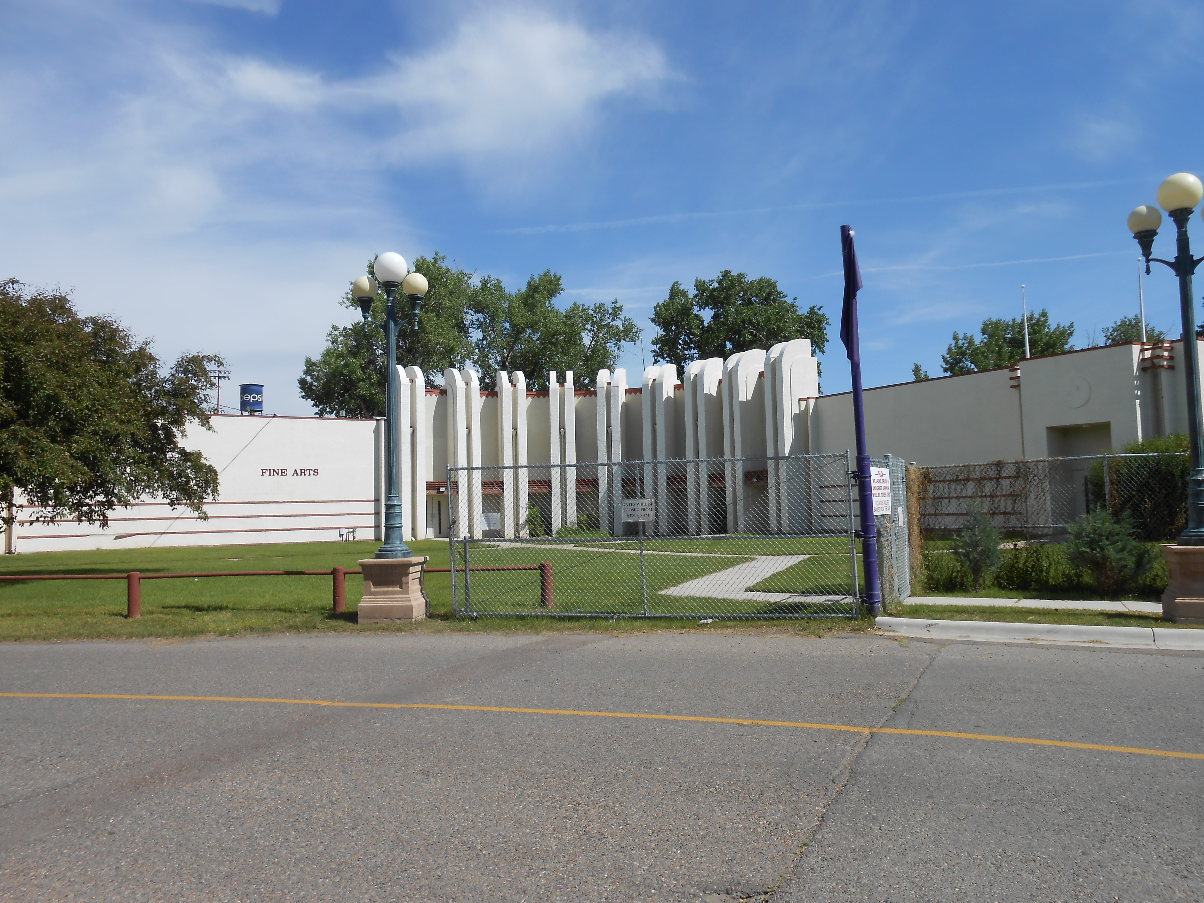 Fairgrounds at Great Falls, Montana; Montana Expo Park, home of the Montana State Fair.